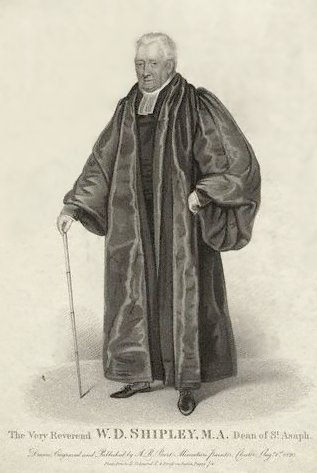 A portrait of William Davies Shipley